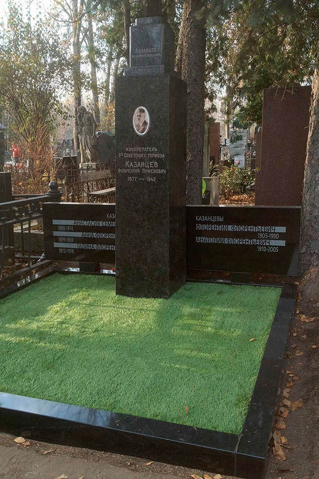 2016. Memorial at the burial site of Florentiy. P. Kazantsev after the reconstruction in 2014. Moscow, Novodevichy cemetery, plot No. 1, line No. 18, grave No. 10.